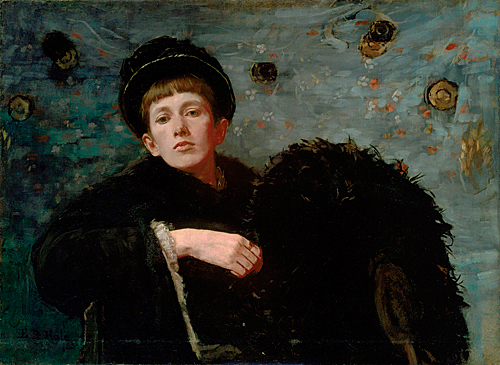 Self-Portrait. Oil on canvas; 28 1/2 x 39 in. (72.4 x 99.1 cm). Museum of Fine Arts, Boston. Gift of Nancy Hale Bowers.